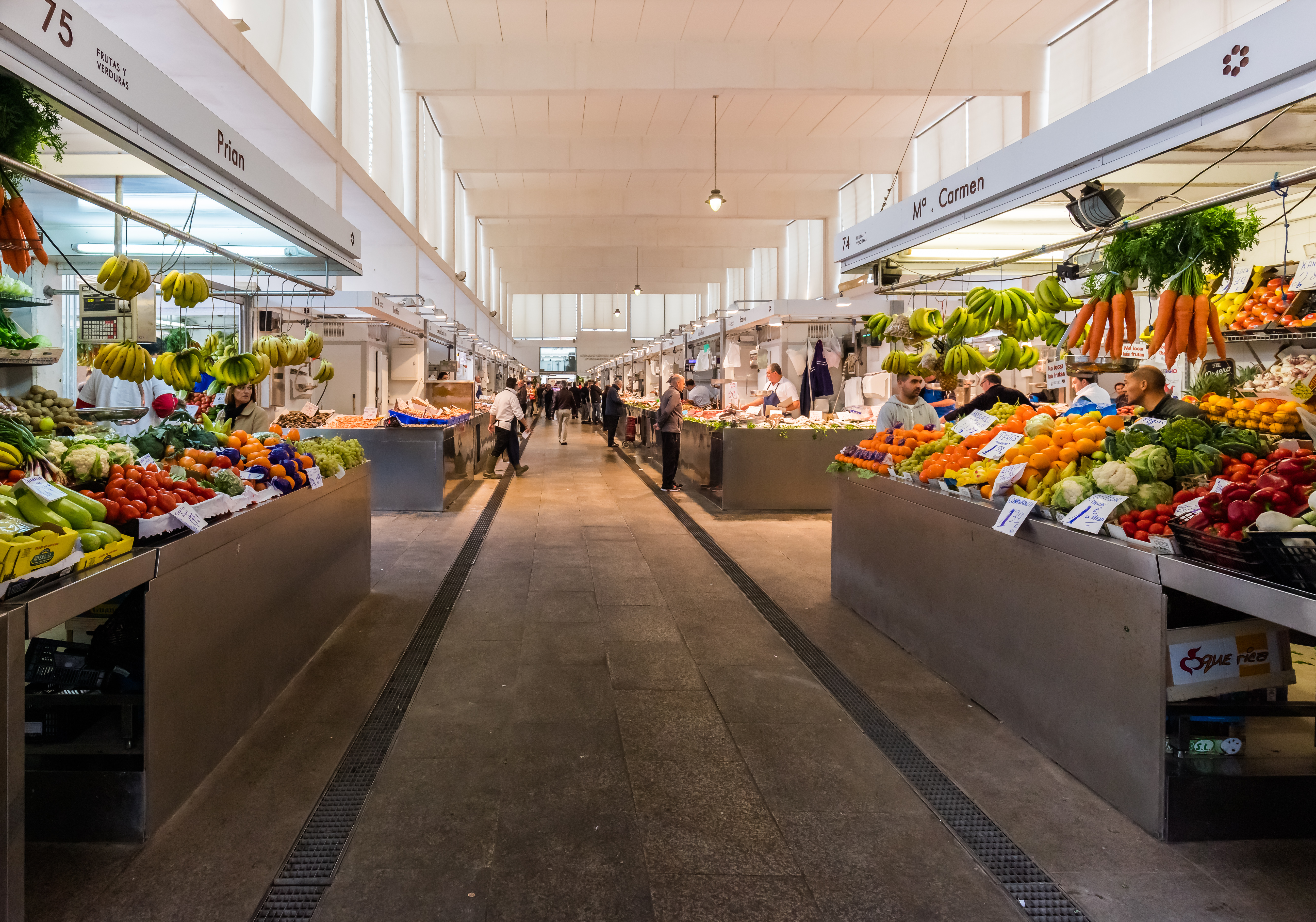 Market of Cádiz, Spain